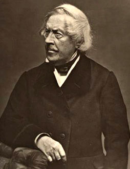 Portrait of Jules Michelet